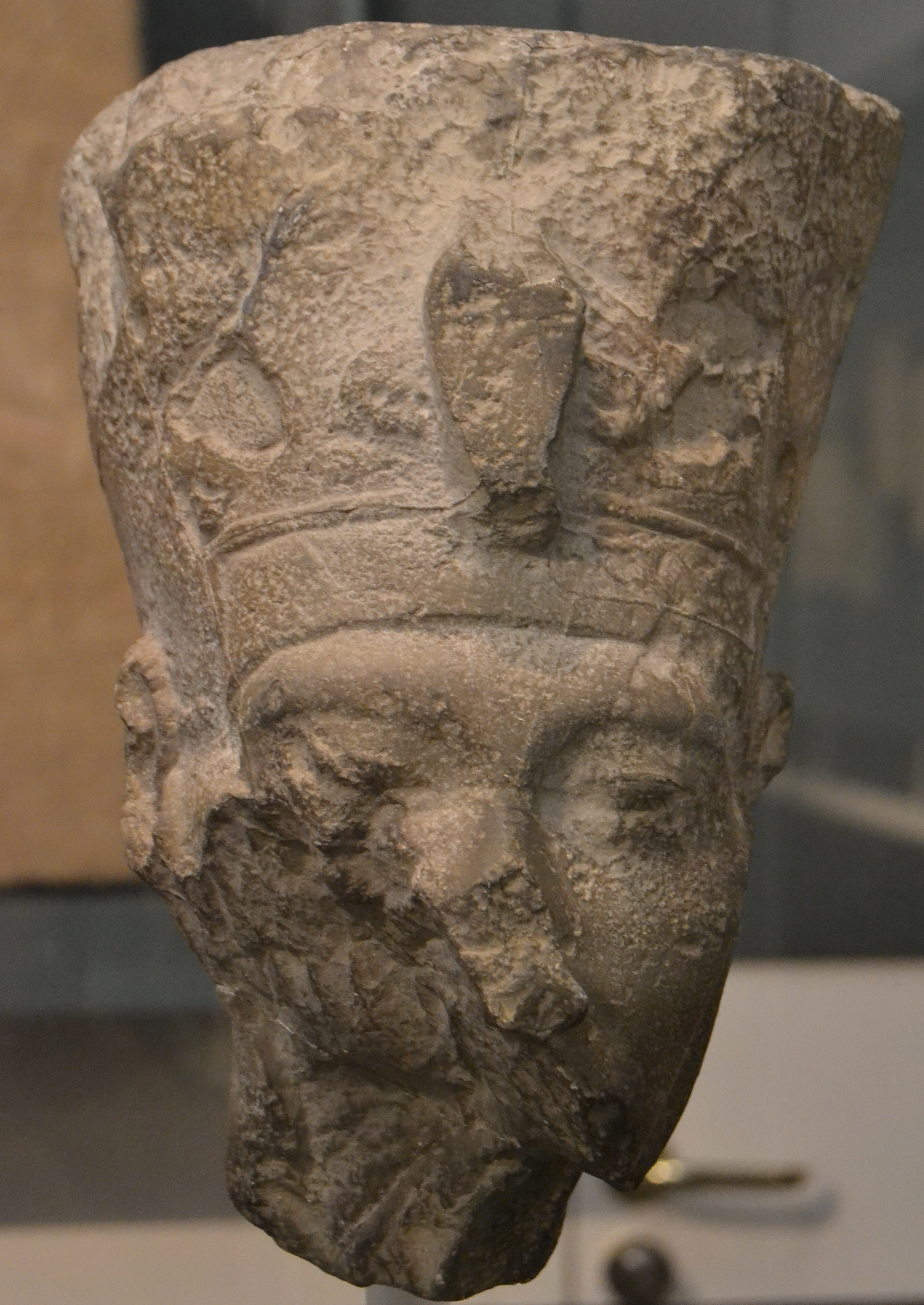 Plaster cast of a head of Nefertiti from a boundary stela from Amarna; Ägypstisches Museum der Universität Leipzig. The original was destroyed during the Second World War